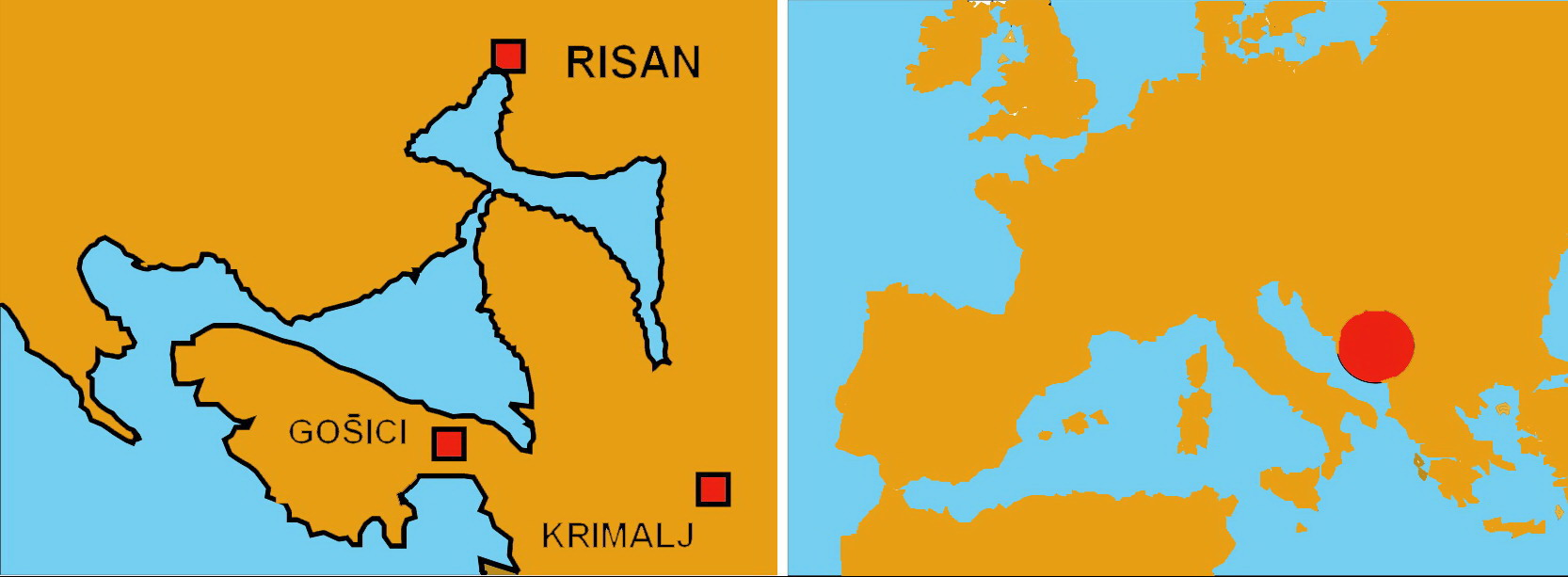 Bay of Kotor and Illiryan fortresses on the hills: Risan ,Gosici and Kremalj (Mirac).